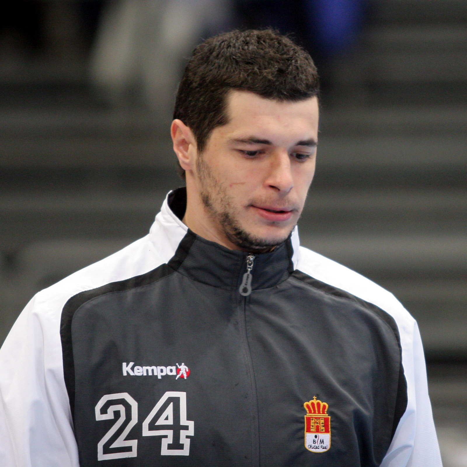 Alberto Entrerrios, handball player of BM Ciudad Real (Spain), in the Kölnarena prior the champions league game VfL Gummersbach vers. BM Ciudad Real on February 20th, 2008